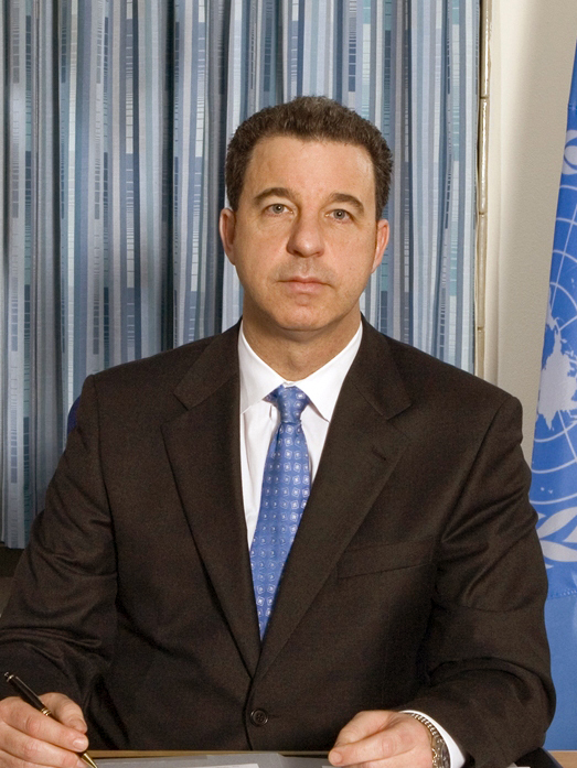 ICTY Prosecutor Serge Brammertz, from Belgium.